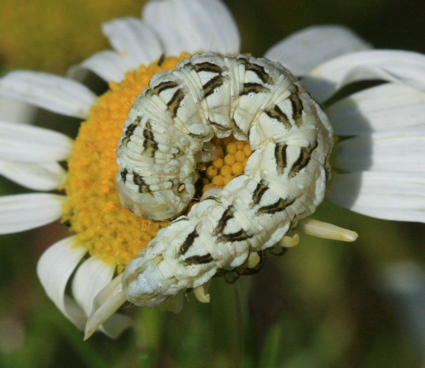 Musselburgh, East Lothian, Scotland